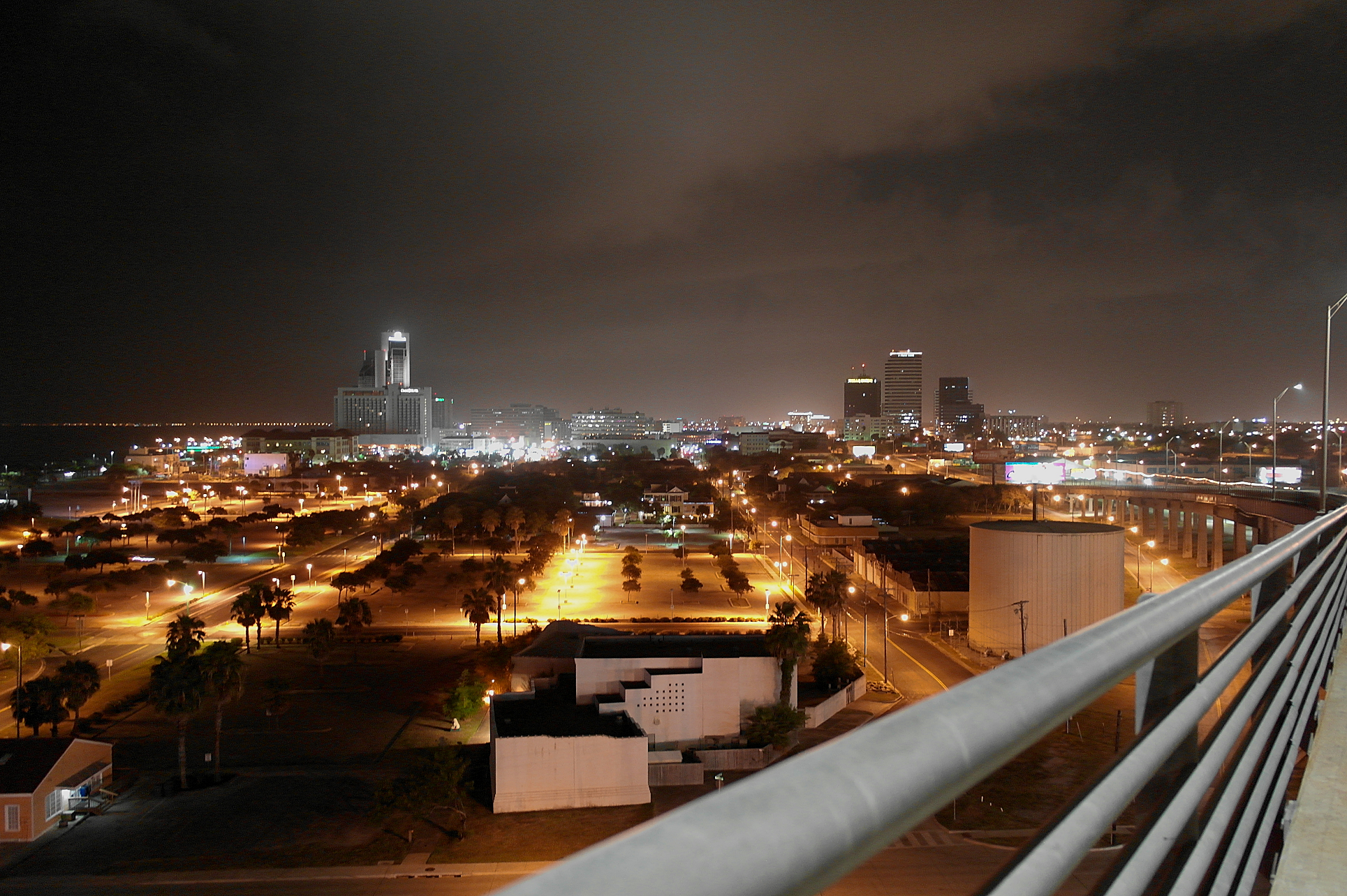 Night photo of Downtown Corpus Christi from the NB side of the Harbor Bridge